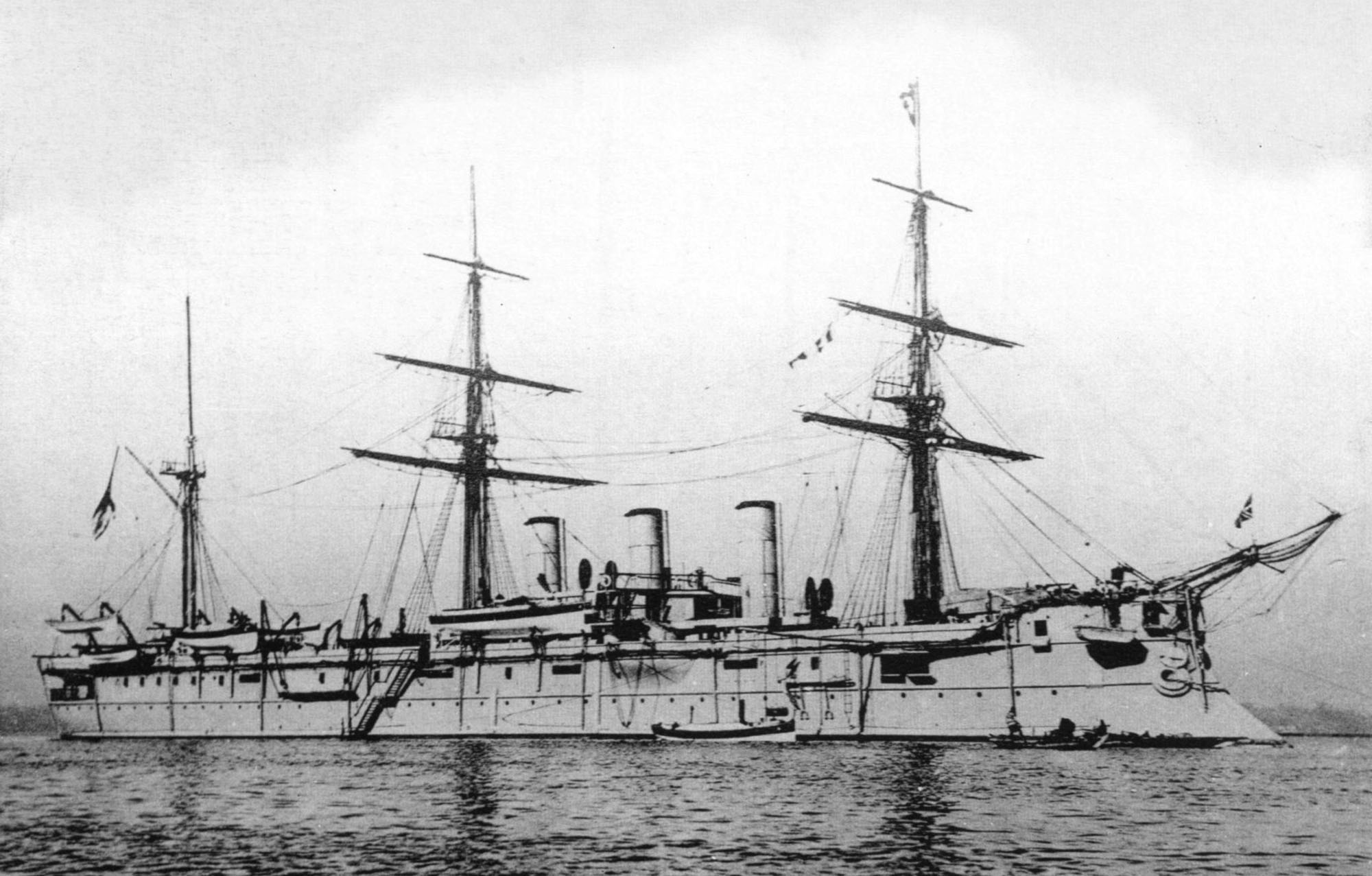 The Imperial Russian armoured cruiser Pamiat’ Azova.